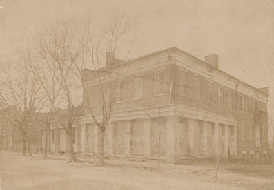 Photograph of the brick stores at the corner of Vine and Second North Streets in Cahaba, Alabama. Probably dates to last half of the 19th century.